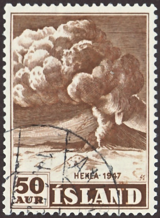 Stamp of Iceland; 1948; definitive stamp of the issue "Icelandic motives"; special issue to the phreatic eruption of the Hekla-volcano in 1947; postmarked in 1952 Stamp: Michel: No. 250a; Yvert et Tellier: No. 211; AFA: No. 251; Scott: No. 249 Color: brown Watermark: none Nominal value: 50 AUR (Aurar) Postage validity: from 3 December 1948 until 31 December 1958 date QS:P,+1950-00-00T00:00:00Z/7,P580,+1948-12-03T00:00:00Z/11,P582,+1958-12-31T00:00:00Z/11 Stamp picture size: 23.5 x 33.5 mm